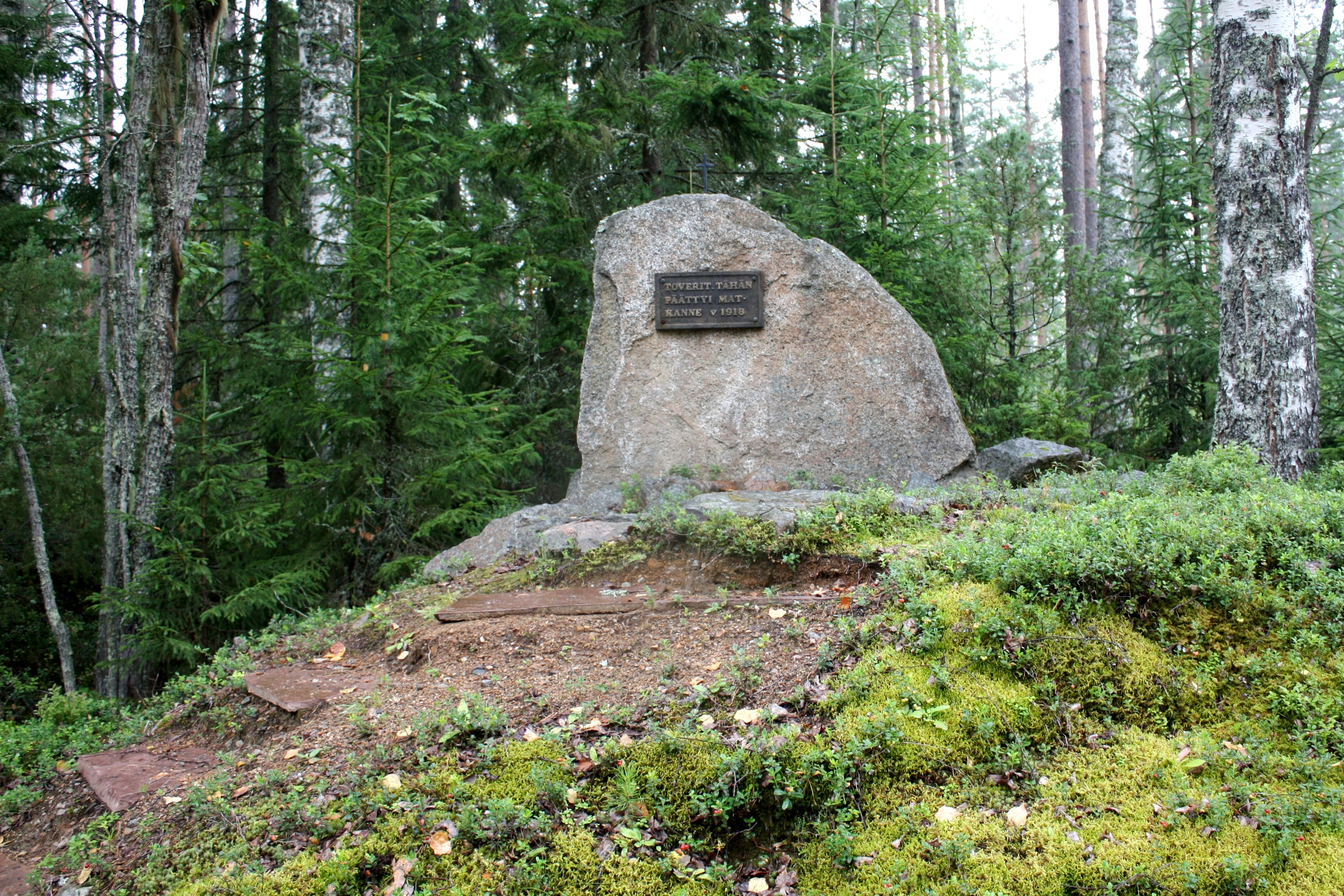 The Memorial for the men who were executed here during the Civil War in 1918: "Comrades, your journey ended here." Inha, Ähtäri.